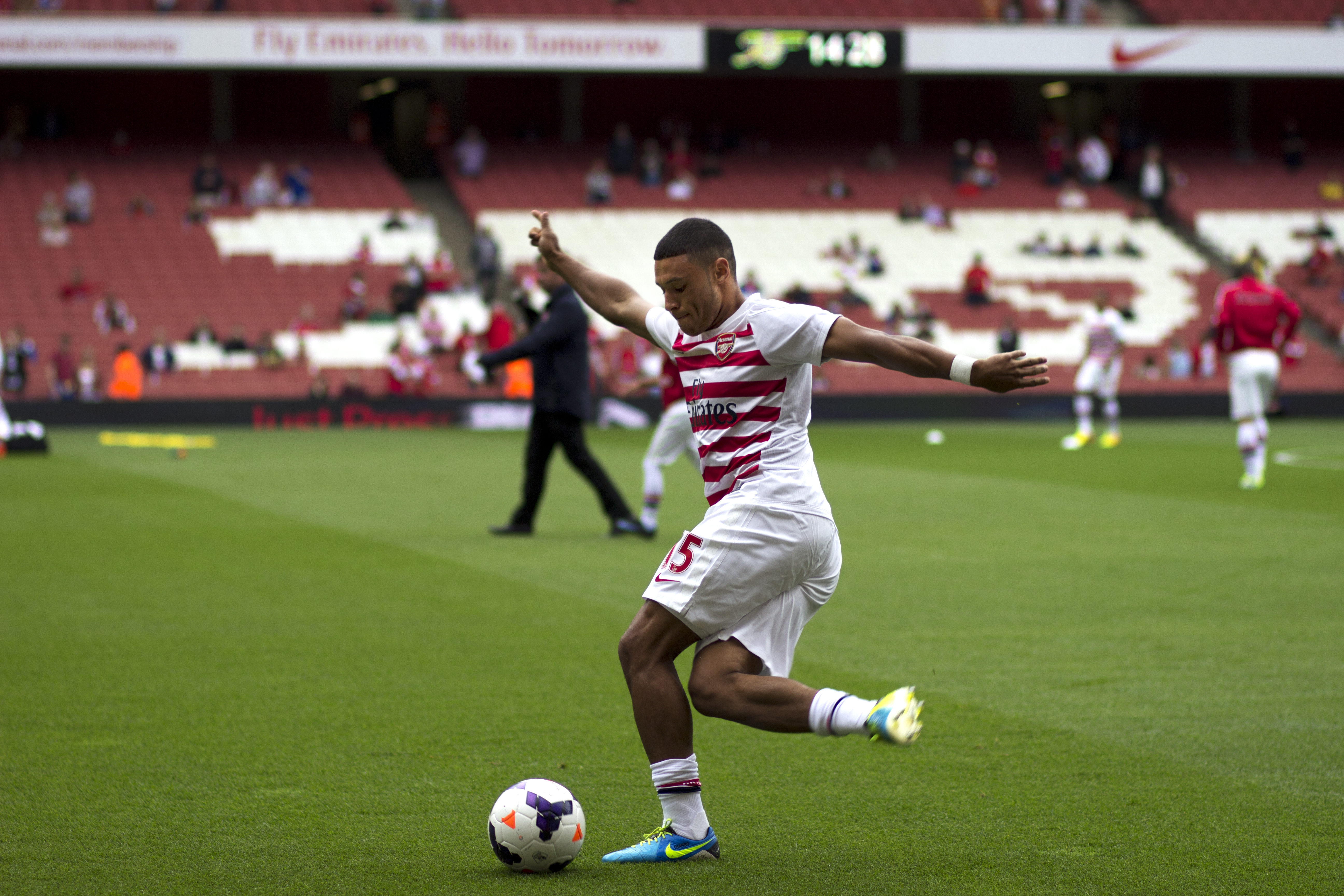 Alex Oxlade-Chamberlain rabona